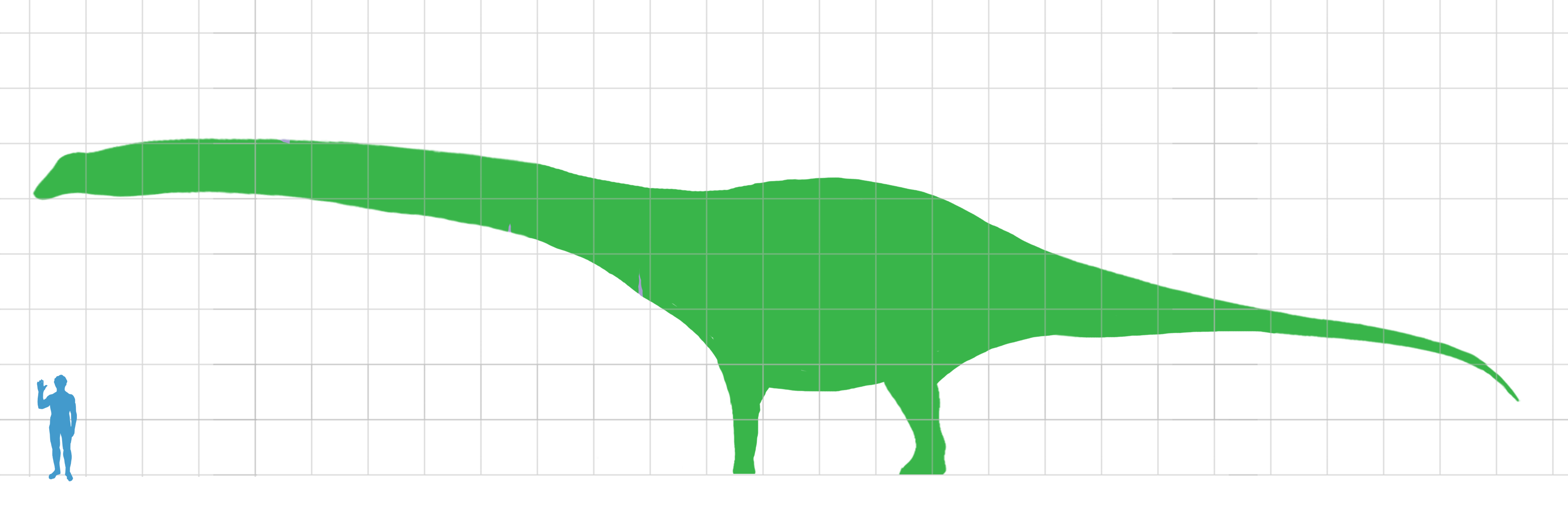 Size of the type specimen of the titanosaurian dinosaur Dreadnoughtus compared with a human.